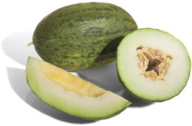 Piel de Sapo (family Cucurbitaceae, Cucumis melo, Inodorus group) is a type of melon widely available in the Northern Hemisphere, with a green blotched skin after which it is named. (Piel De Sapo translates as "toad skin").